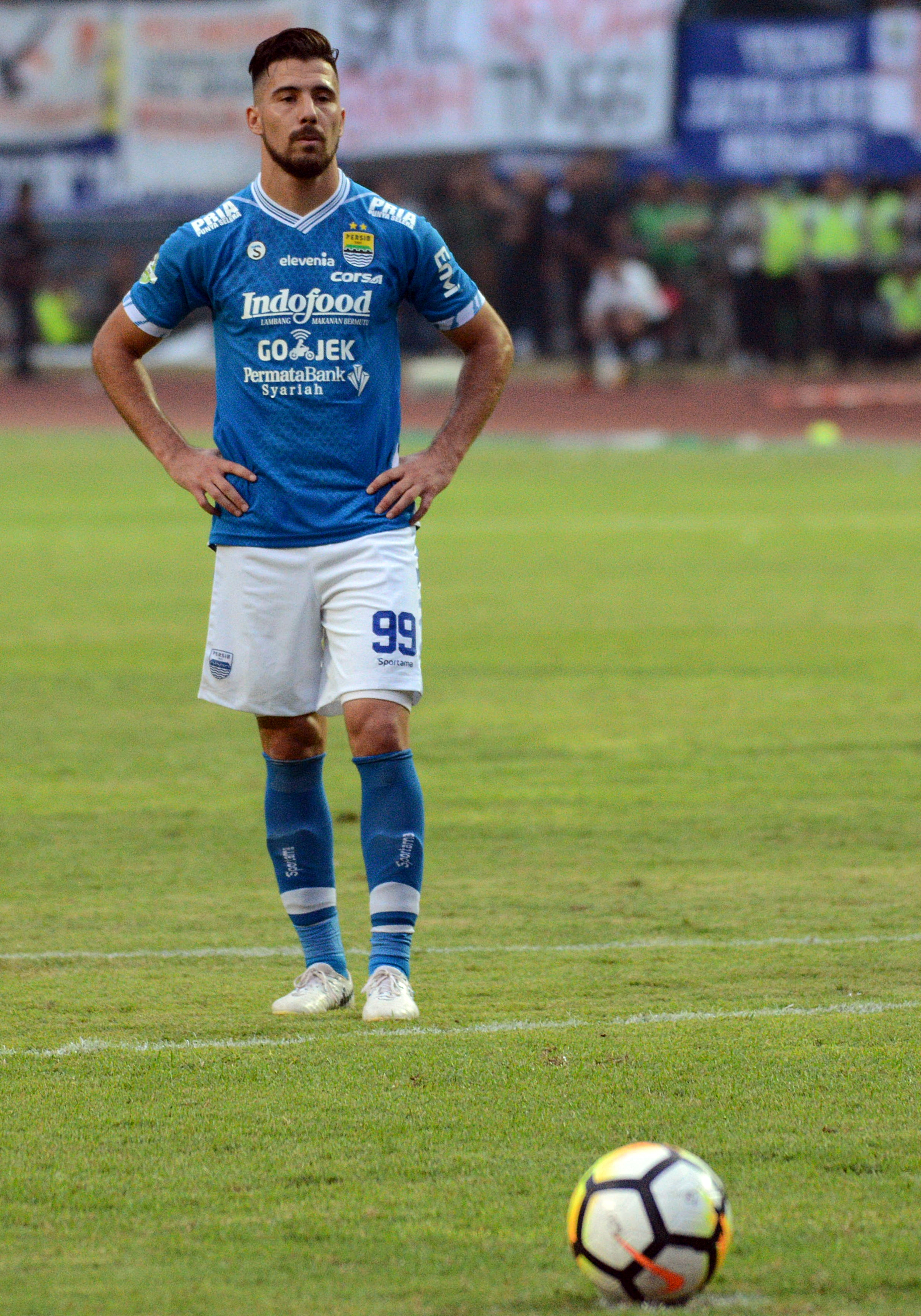 Jonathan Bauman Persib